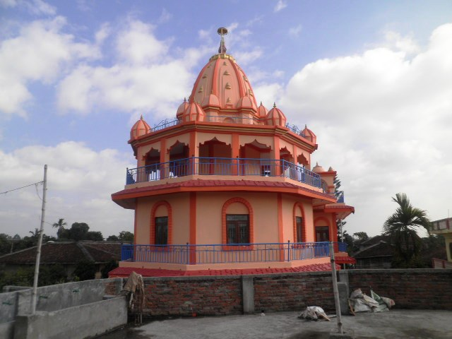 Back view of main temple.